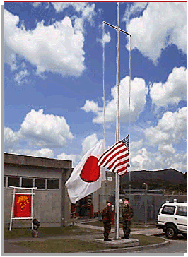 Morning colors at Camp Gonsalves